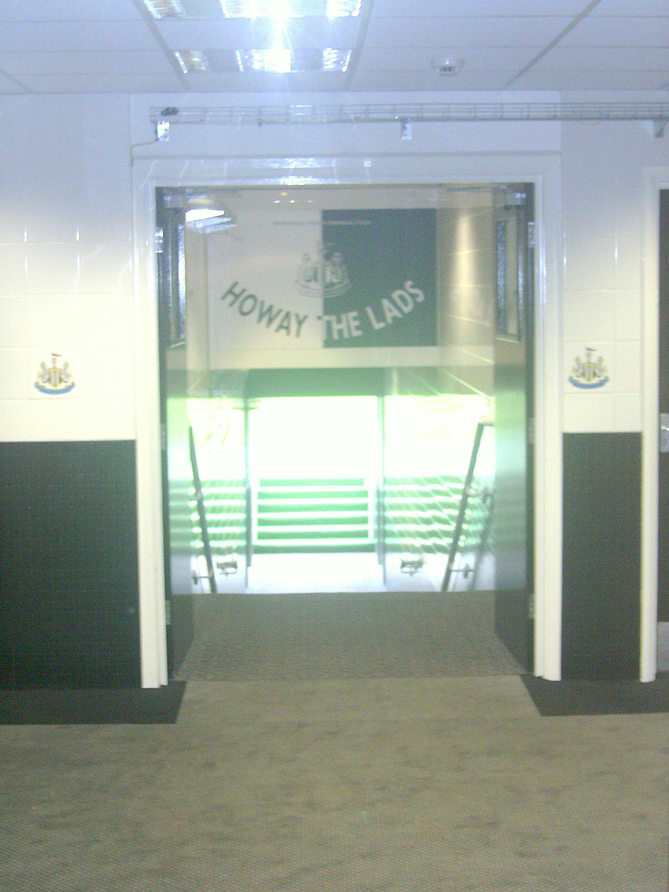 Entrance onto the St James' Park pitch